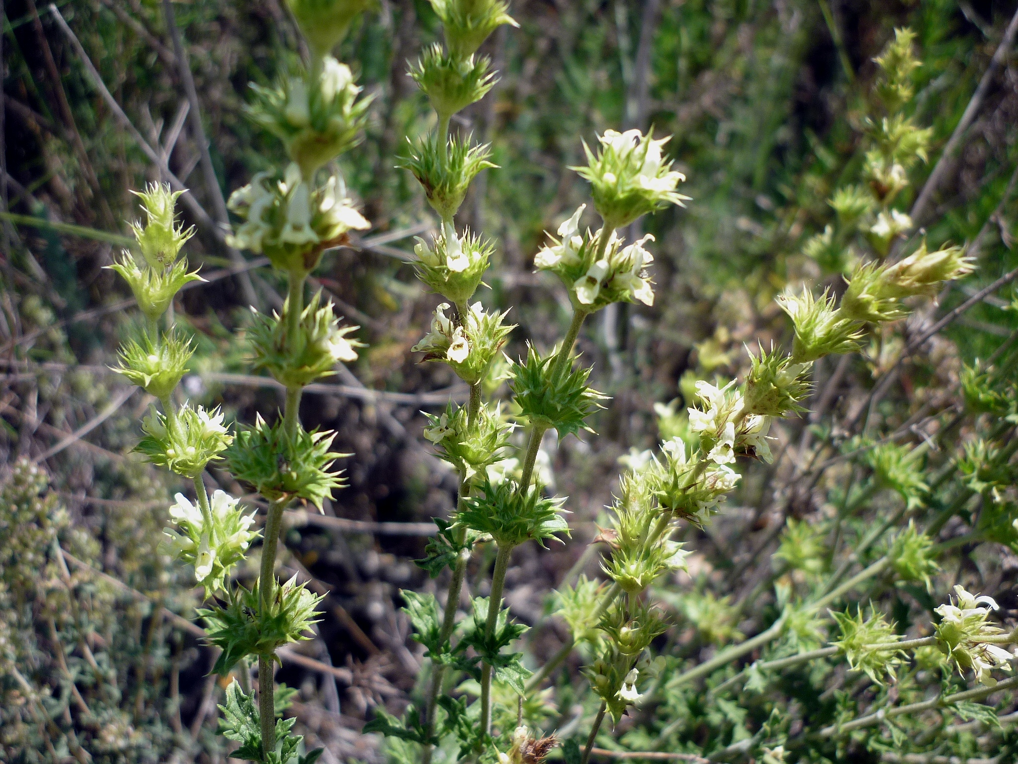 Sideritis angustifolia. In Torà (Segarra-Catalunya). To 460 m. altitude